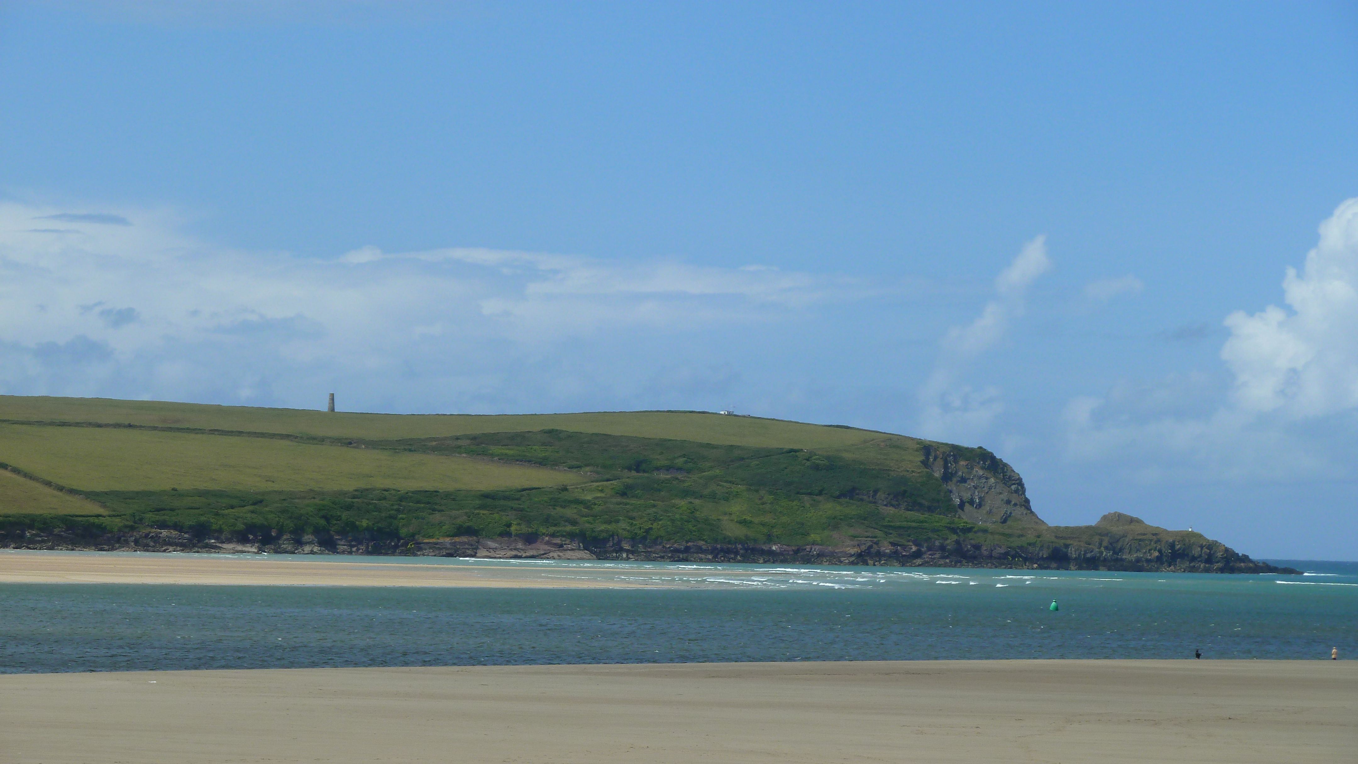 View of the Doom Bar from Daymer Bay